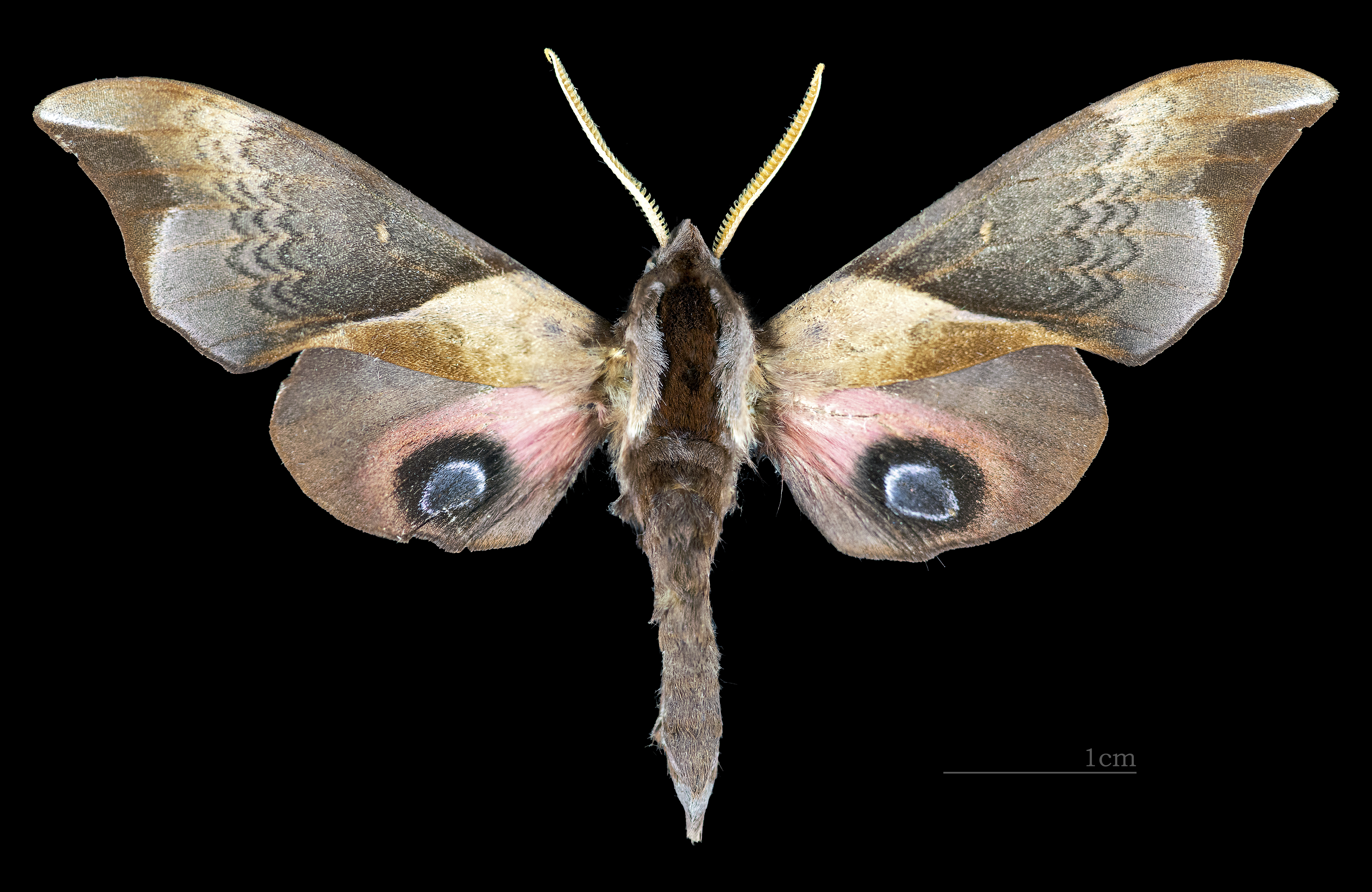 Smerinthus szechuanus - Dorsal side Collection of the Mathematician Laurent Schwartz